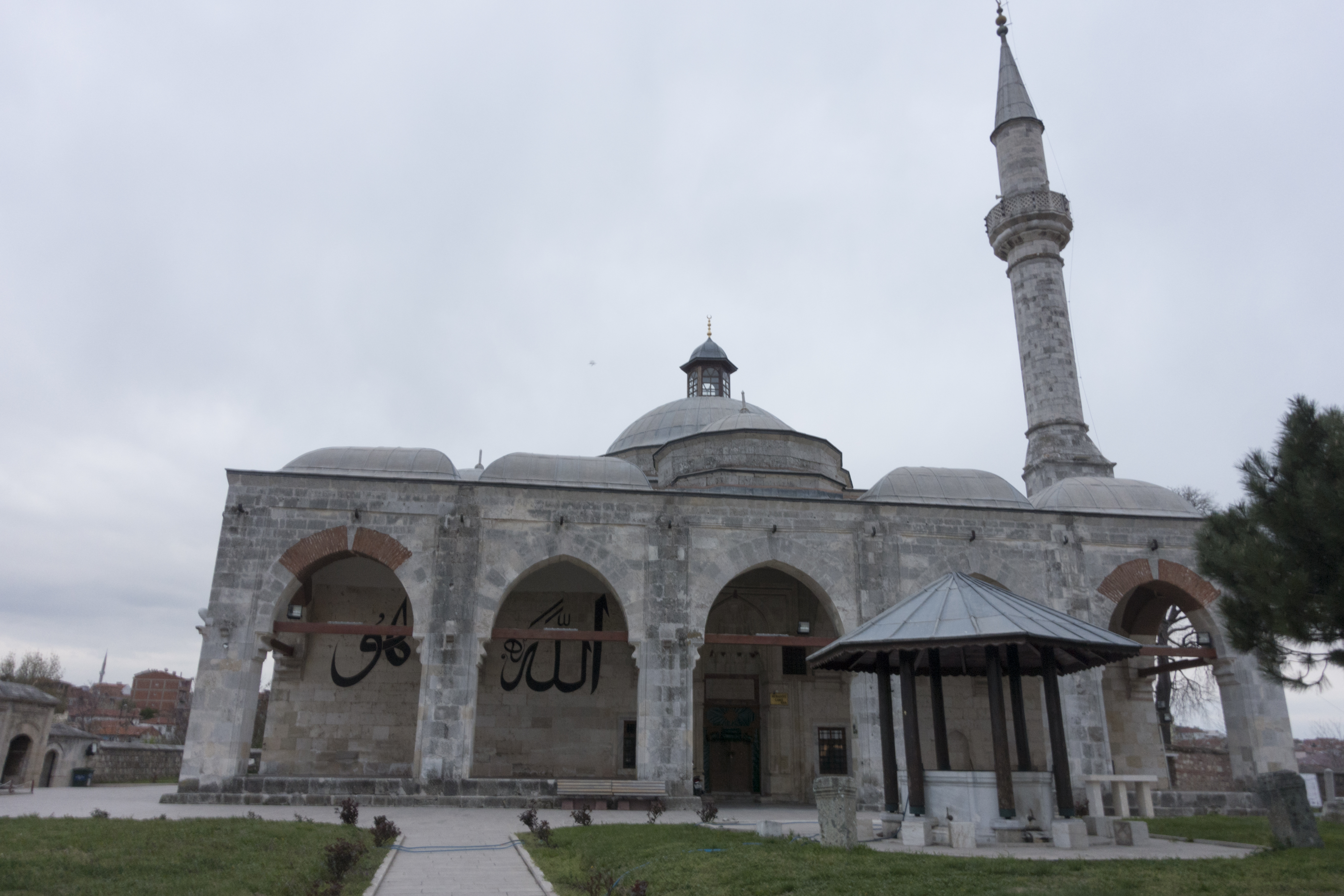 Muradiye Mosque was founded in 1435 by Murat II. It was, together with the Tekke (monastery) an important centre of Dervishes following Mevlana.